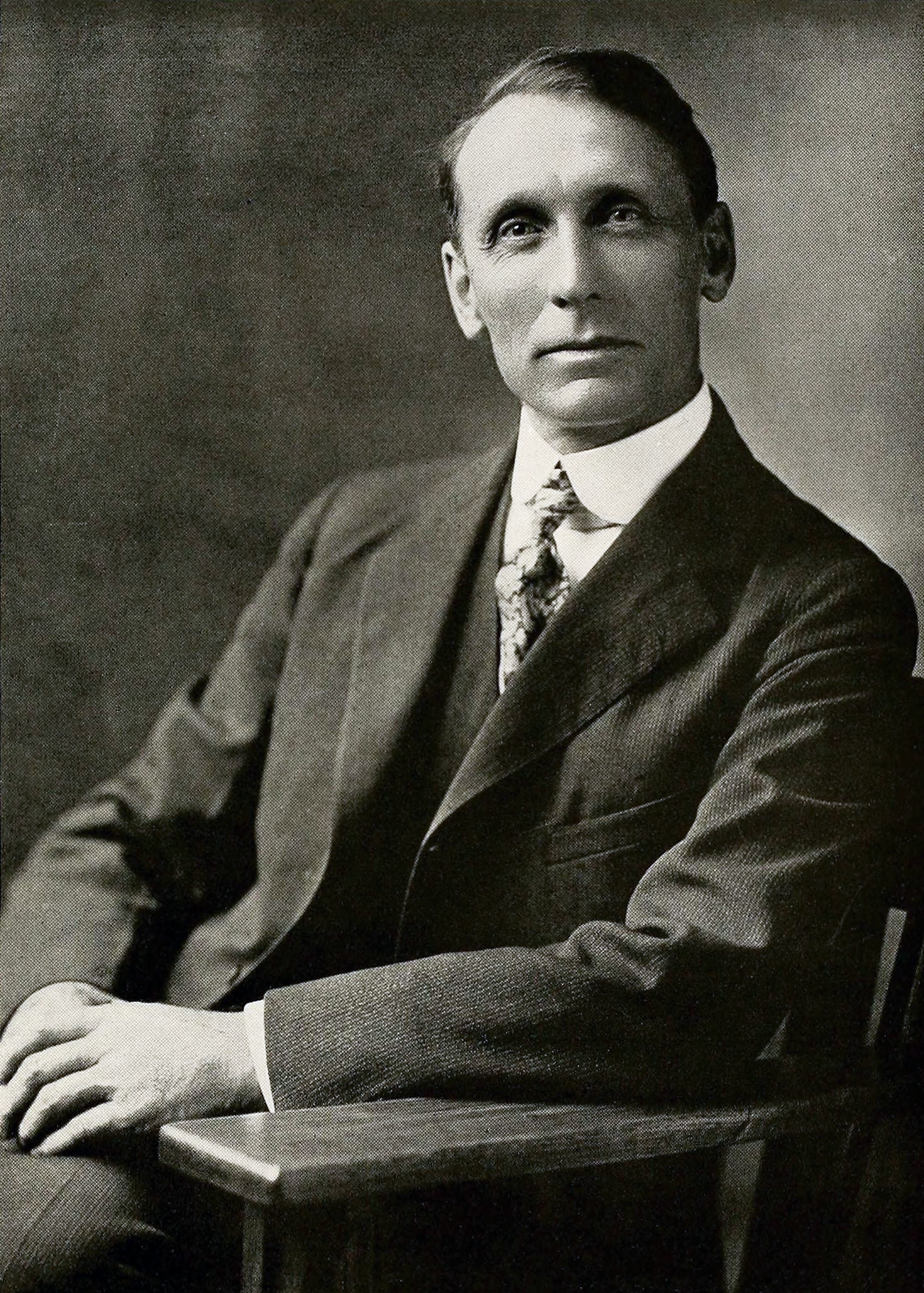 Portrait of Edward Morgan Lewis as Dean of the Massachusetts Agricultural College